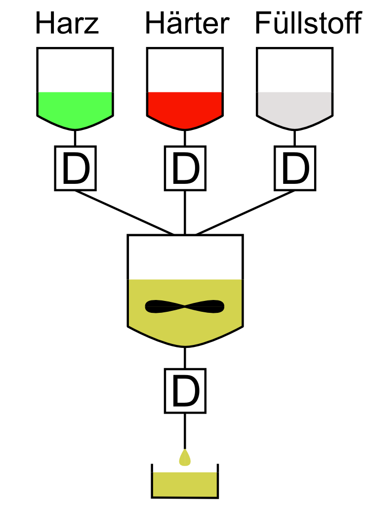 Schematic drawing of an one line casting plant, D indicates dosing devices